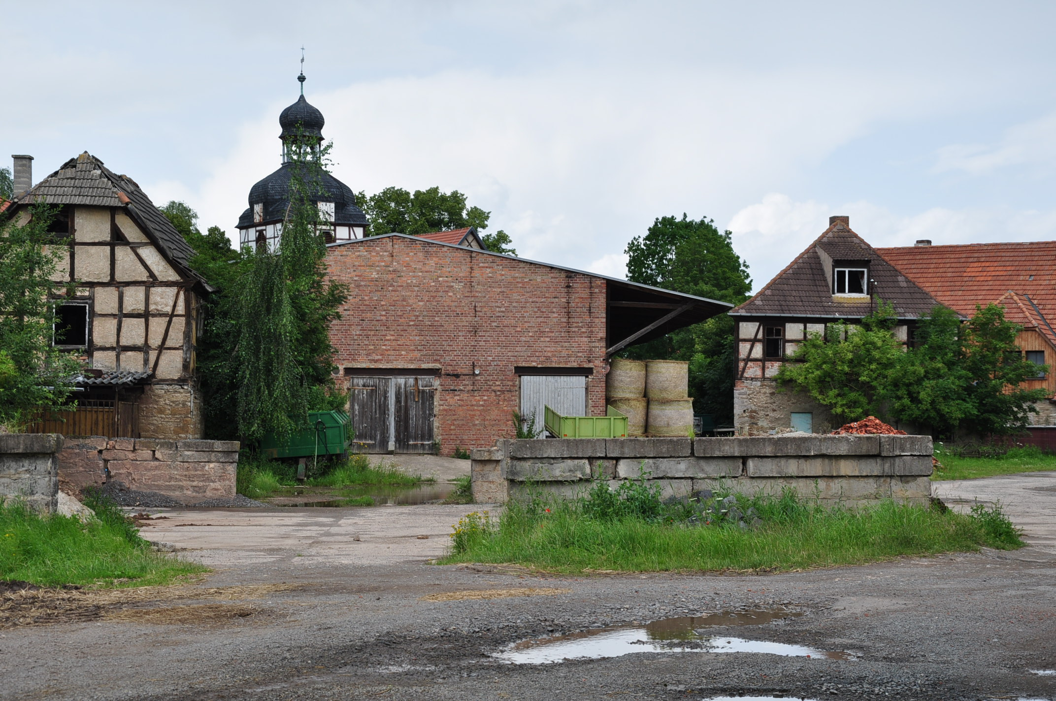 Scene on "An der Kirche" (street name) in Uftrungen (municipality Südharz, district Mansfeld-Südharz, Saxony-Anhalt, Germany). In the background St. Andrews' church.